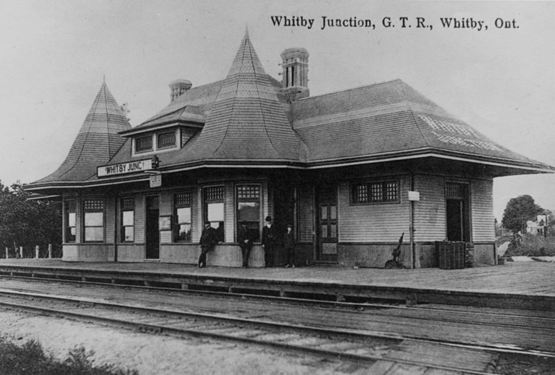 Whitby Junction Station. A few men are standing on the platform. The Whitby Junction Station was built at the foot of Byron Street on the Grand Trunk Railway in 1903 near the current GO Transit platform.